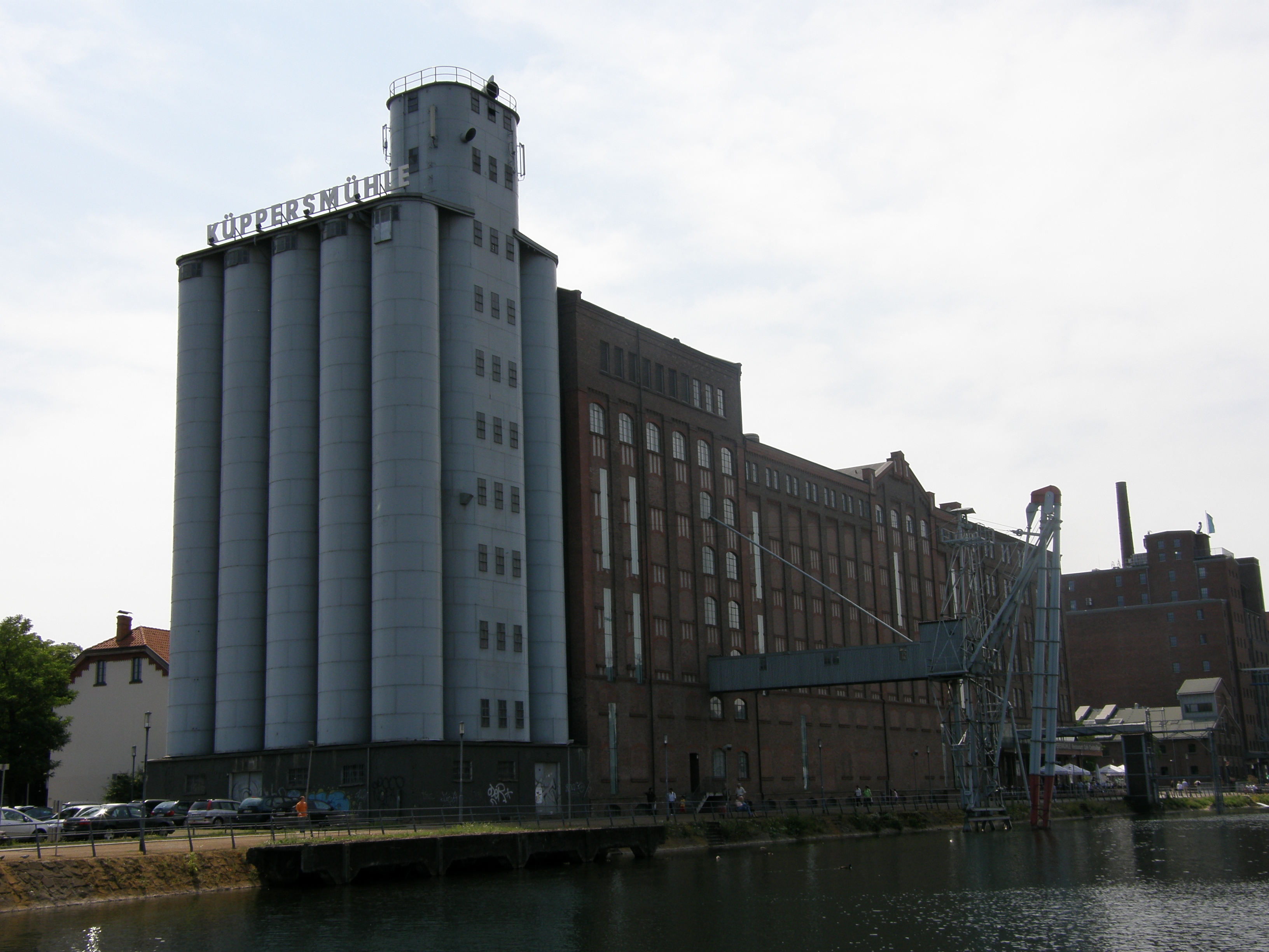 Küppersmühle in the inland port of Duisburg